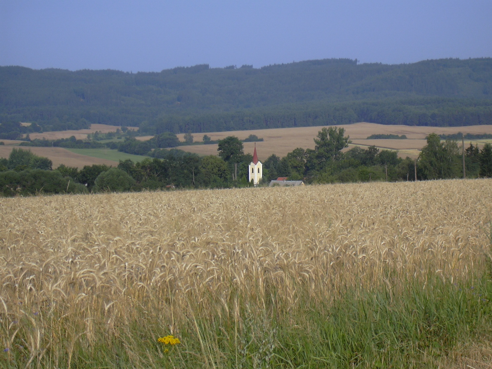 Velečín village and church tower in the Czech Republic